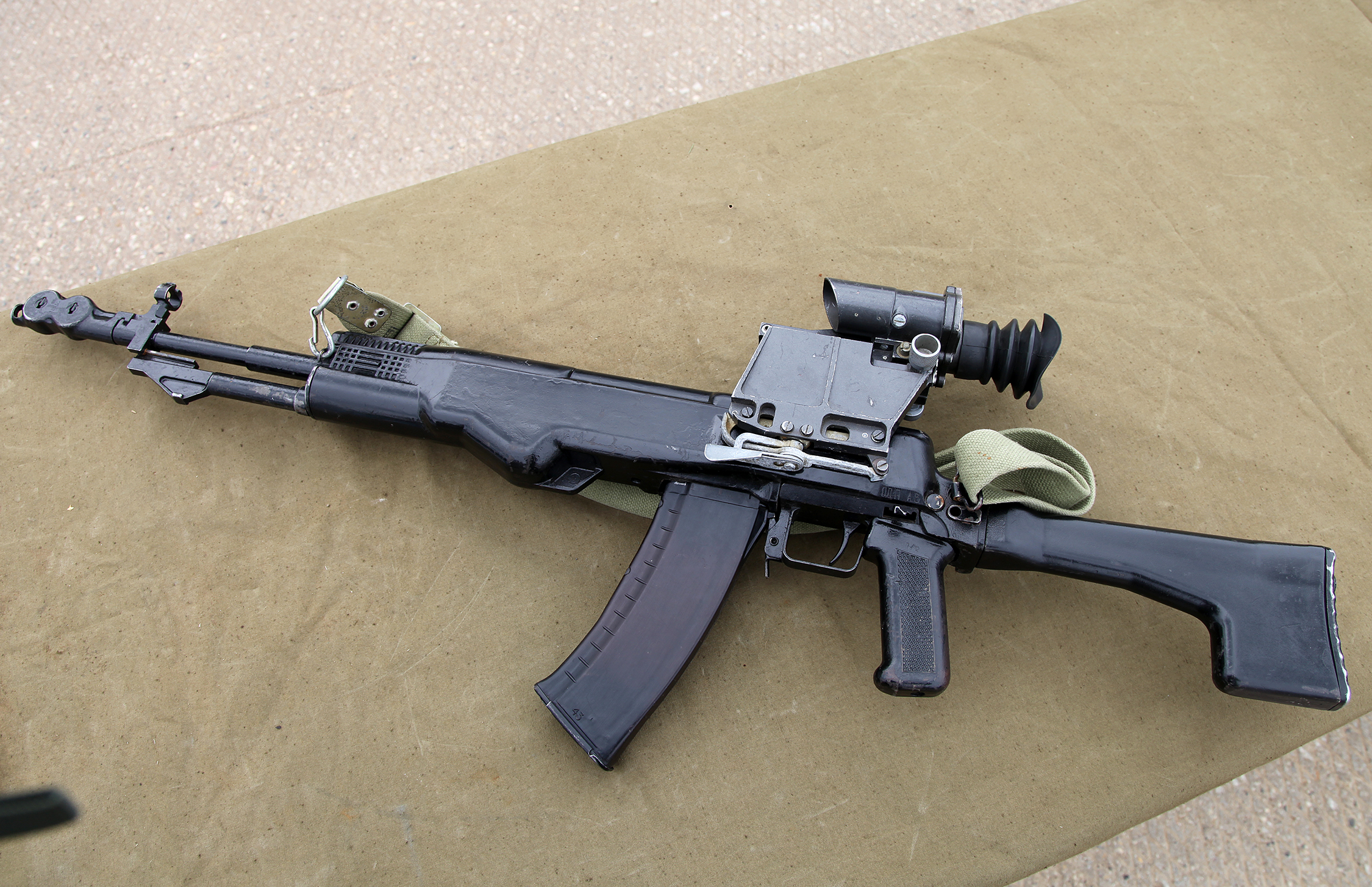 Prototype of AN-94 assault rifle, also known as LI-291 - Tank Biathlon-2014